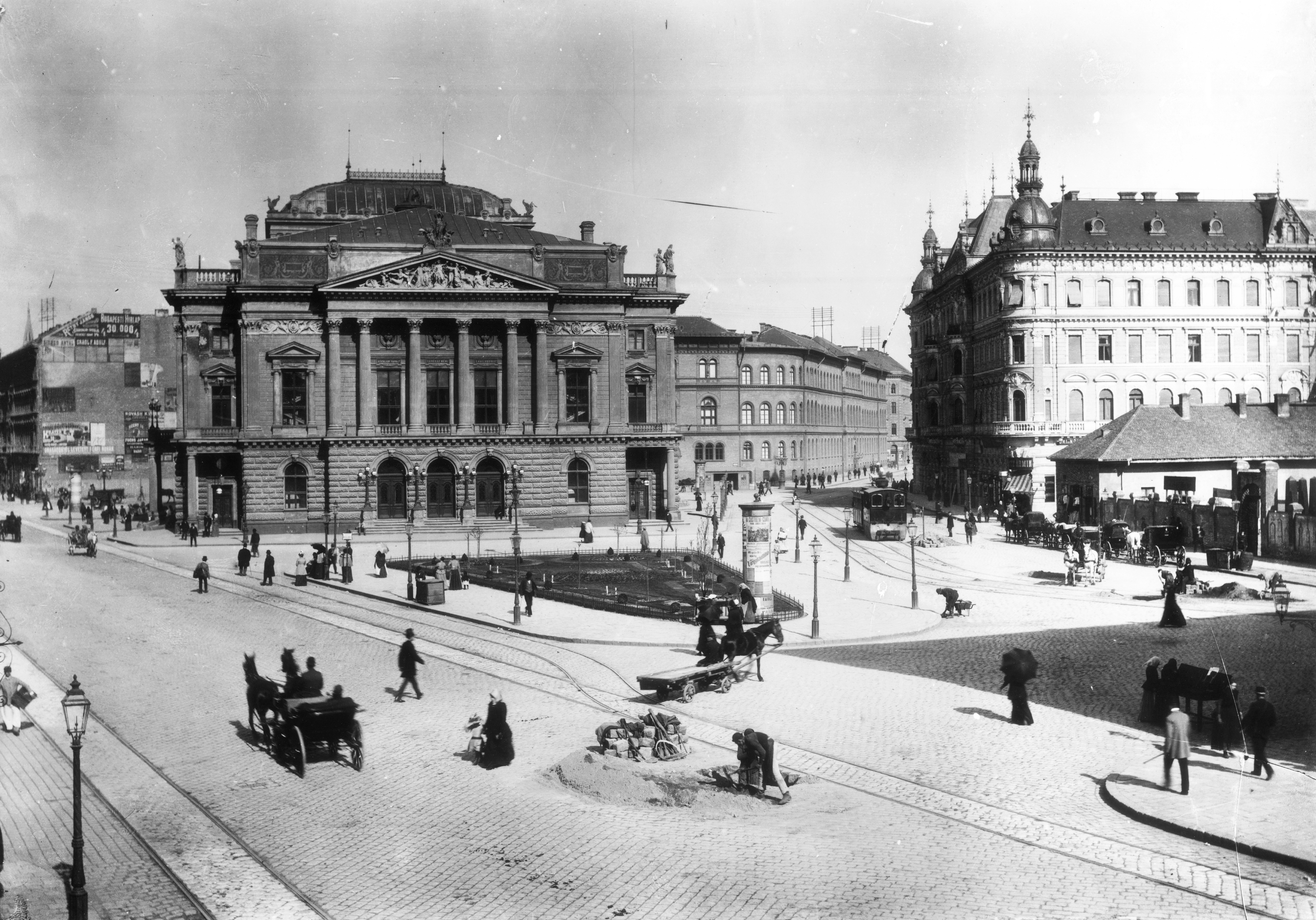 The old national theatre